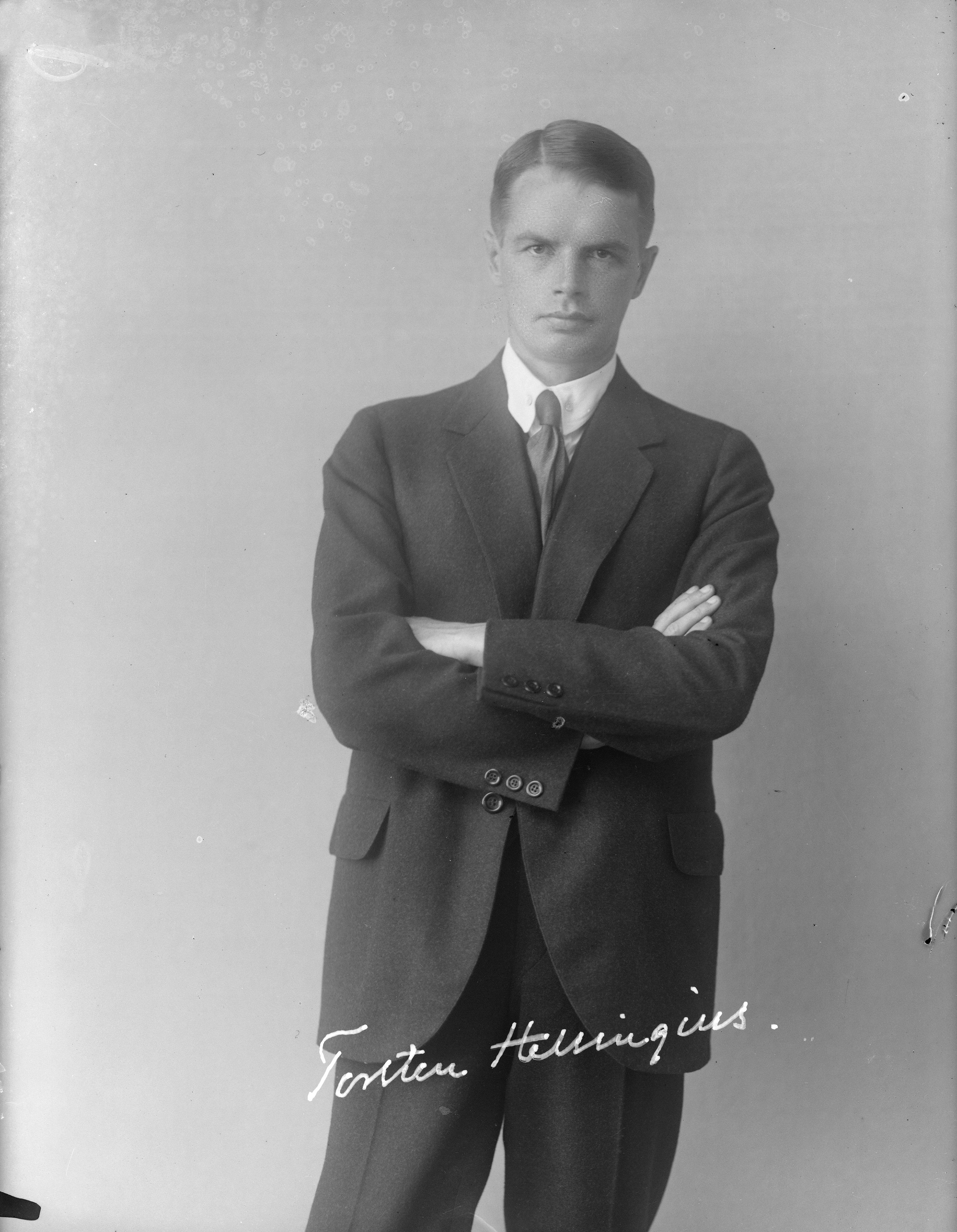 Photograph of the Finnish writer Torsten Helsingius (1888–1967).